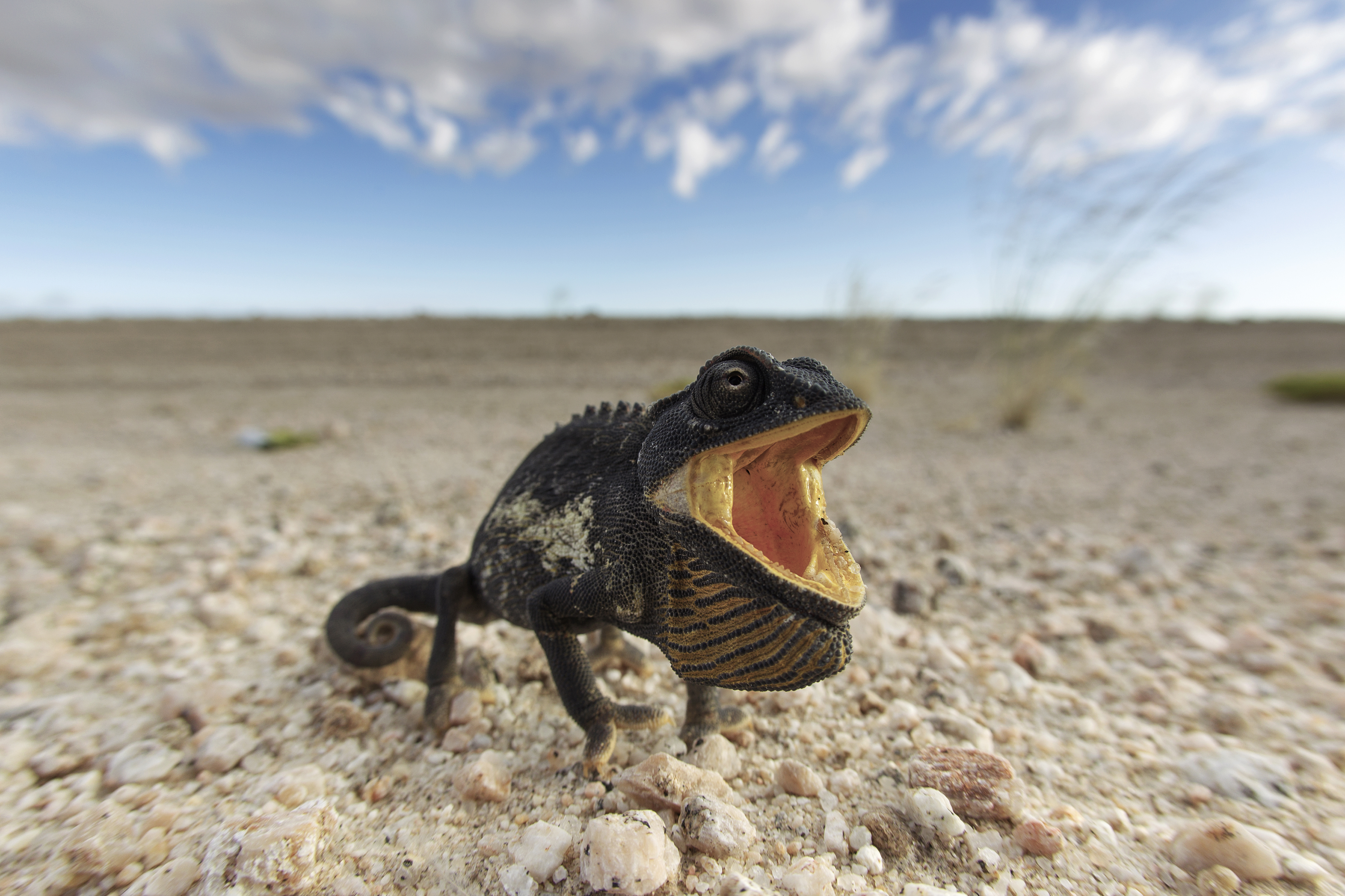 A Namaqua chameleon in threat display, Namib desert, Namibia. The chameleon was in the middle of a highway C14 and was approached to be moved off the road. The chameleon then changed its color to black and displayed its brightly colored mouth as a threat display.